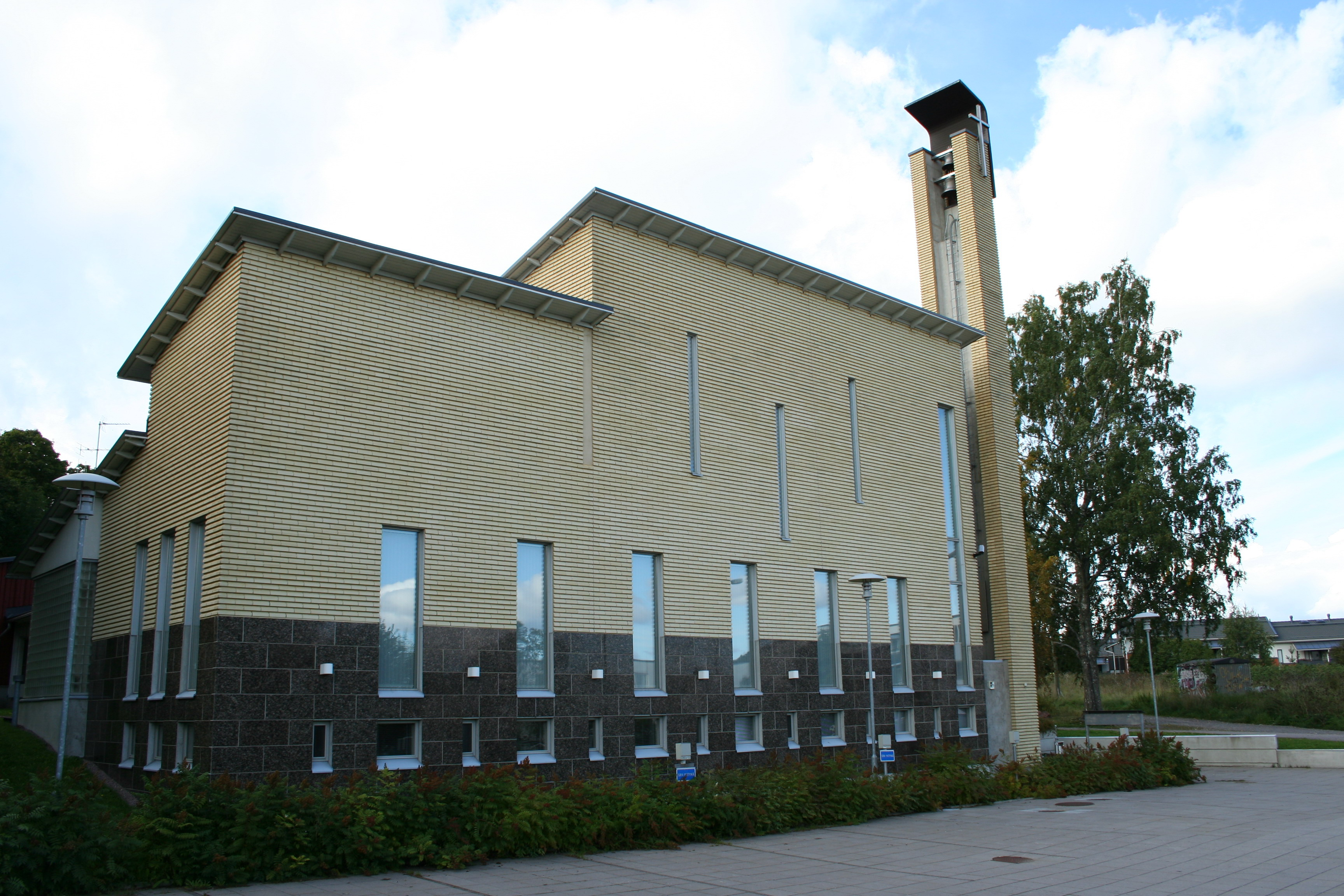 Masala church, Kirkkonummi, Finland